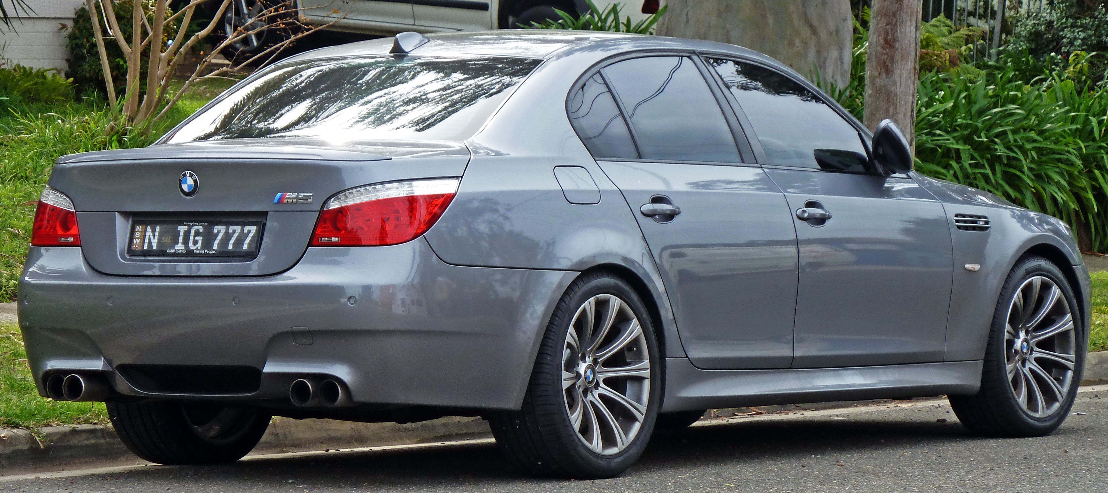 2007–2010 BMW M5 (E60) sedan. Photographed in Caringbah, New South Wales, Australia.